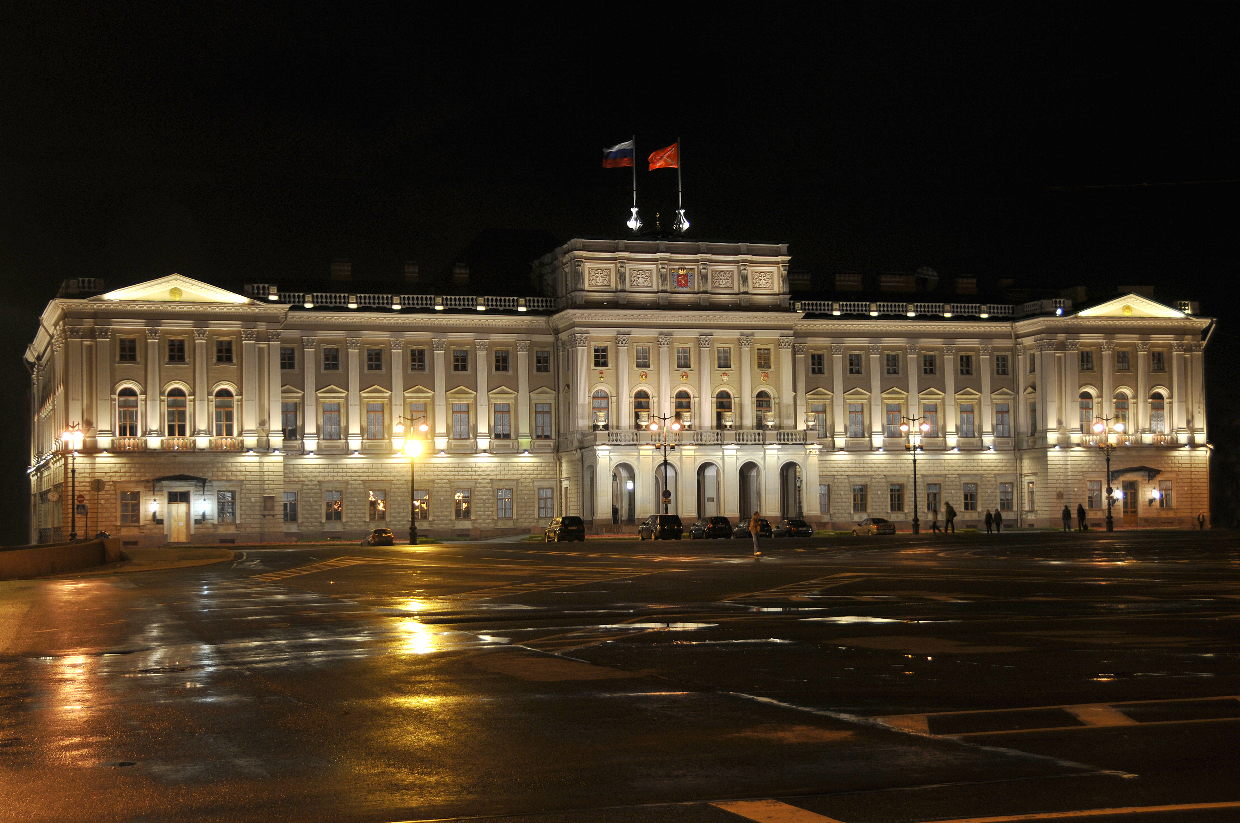 PLEASE, no multi invitations, glitters or self promotion in your comments. My photos are FREE for anyone to use, just give me credit and it would be nice if you let me know. Thanks Mariinsky Palace was the last Neoclassical imperial palace to be constructed in Saint Petersburg, built between 1839 and 1844. It housed Soviet ministries and academies, served as a hospital and is now used by the Saint Petersburg Legislative Assembly.